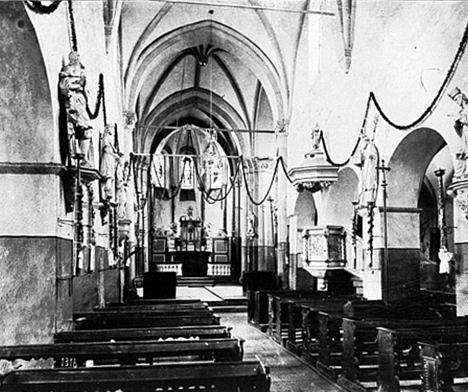 Innenansicht der Propsteikirche Oberpleis vor der Renovierung 1891, mit barocker Innenausstattung